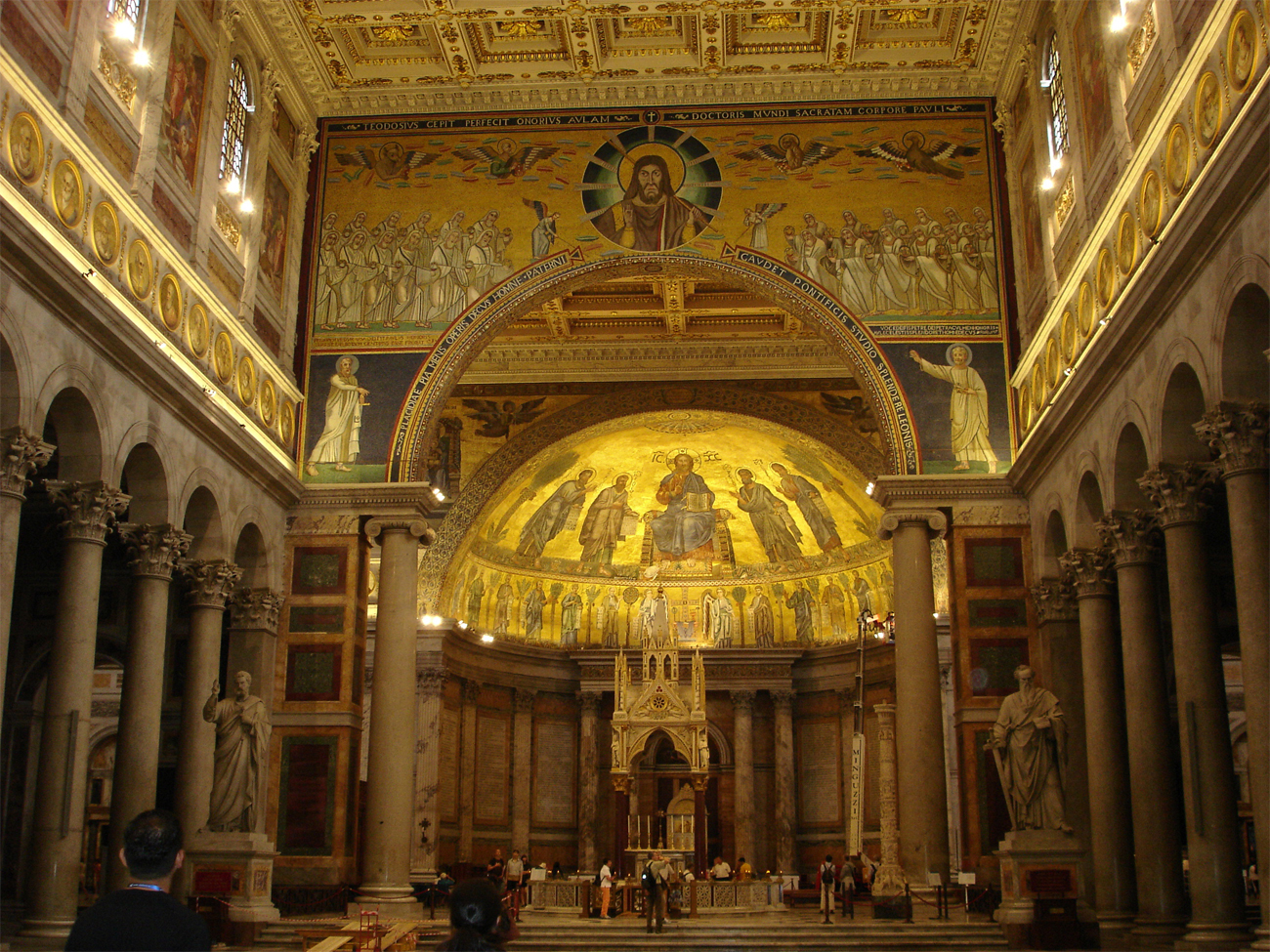 St. Pauls Outside the Walls, Rome, Italy